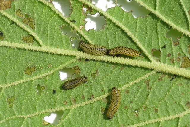 Viburnum beetle larvae on Viburnum lantana (Wayfaring tree in my garden. Also causing severe damage on Guelder rose (Viburnus opulus) in a neighbour's garden. The beetle a chrysomelid, Pyrrhalta viburni is a native to Europe and has become a more serious pest in the south in the last 10 years, and a serious invasive pest in N. America [our pay-back for the grey squirrel?]. According to the National Biodiversity Network ( there is only one record for Scotland, from Edinburgh pre-1890, but their information is woefully incomplete.